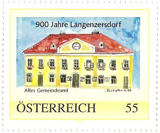 Stamp, painted by Martina Schettina 2008 for 900 anniversery of Langenzersdorf